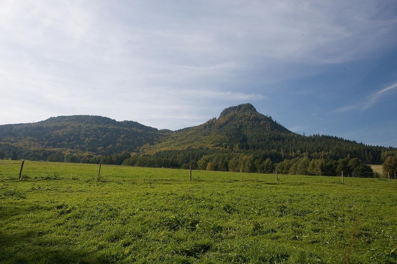 Božanovský Špičák (left) and Koruna (769 m, right) above Božanov